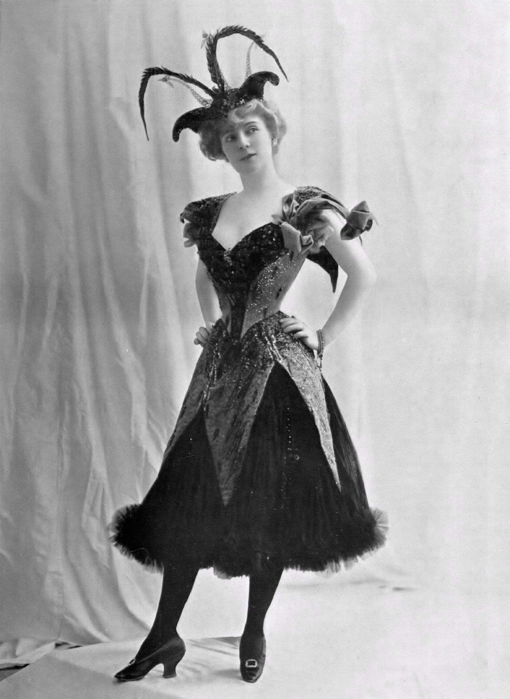 Amélie Diéterle plays the role of Sataniella in a reprise of the theatre play, « Le carnet du Diable », by Ernest Blum and Paul Ferrier, on a music by Gaston Serpette, at the Théâtre des Variétés in 1900. Amélie Diéterle is a French actress born in Strasbourg on February 20, 1871 and died in Cannes on January 20, 1941. She was legitimated in Paris in 1892 by Captain Louis Laurent, Knight of the Legion of Honor. Amélie Diéterle married in Vallauris on June 16th, 1930 with André Simon (1877-1965). Amélie Diéterle plays mainly at the Théâtre des Variétés in Paris during the Belle Époque.